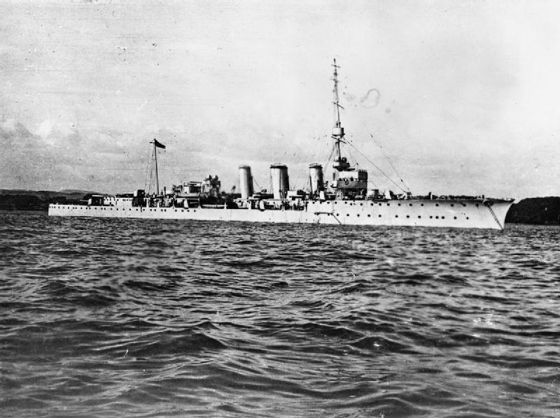 British light cruiser HMS CORDELIA.